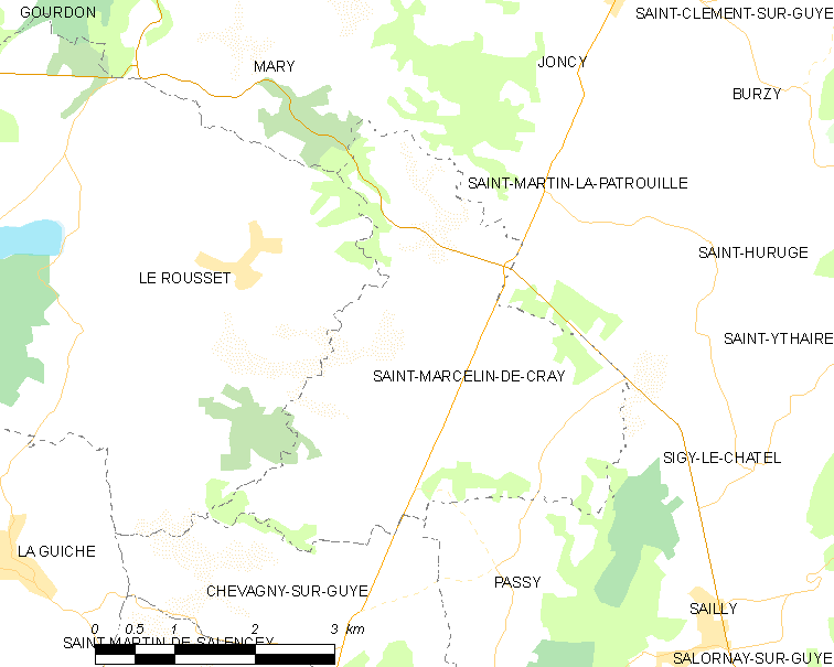 Map of French municipality